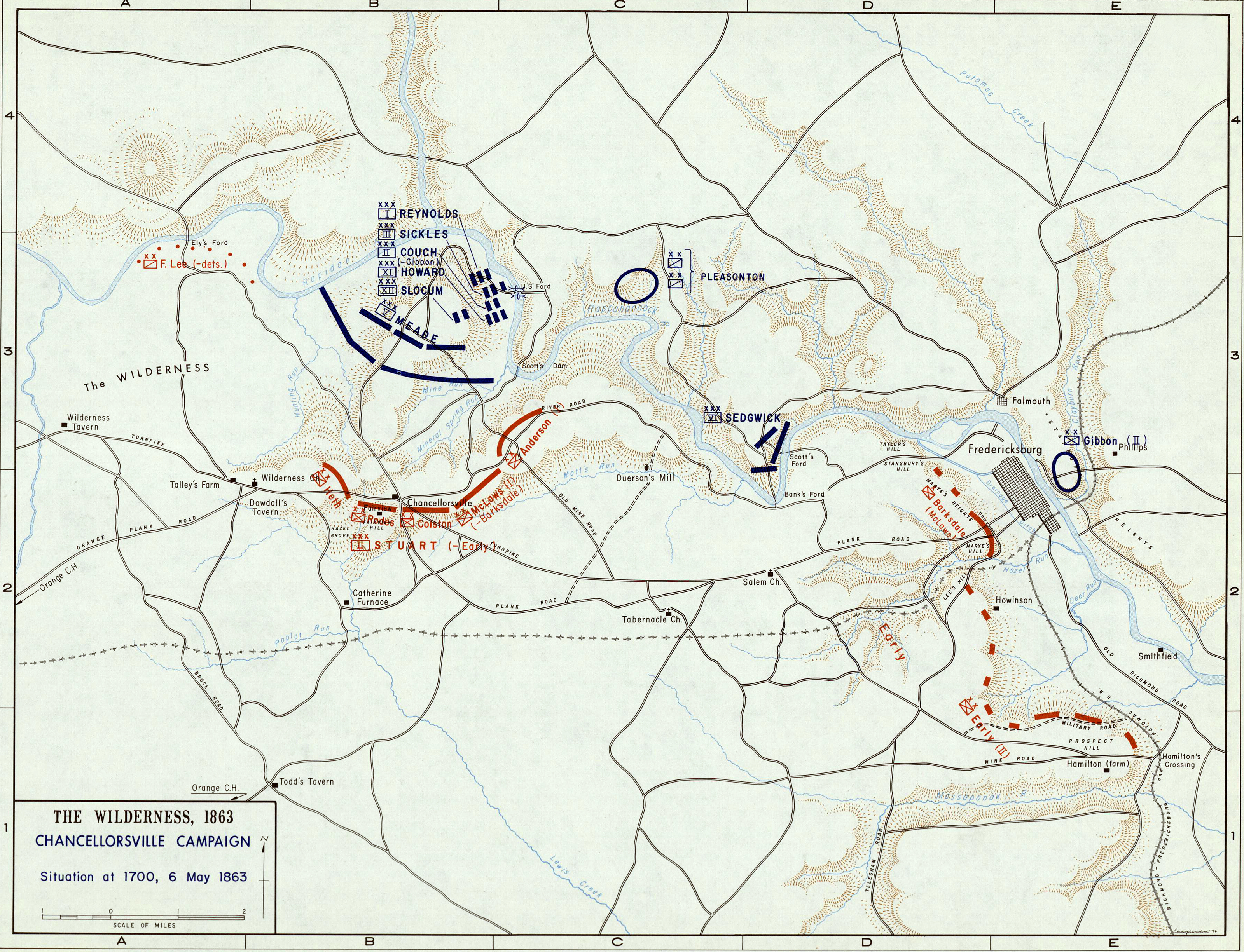 Battle of Chancellorsville, 6 May 1863 (Situation at 1700).